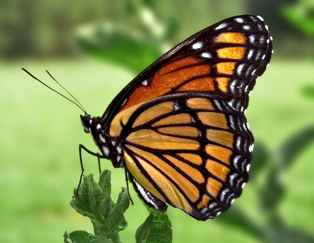 Viceroy Butterfly (Limenitis archippus) (Monarch Mimic)